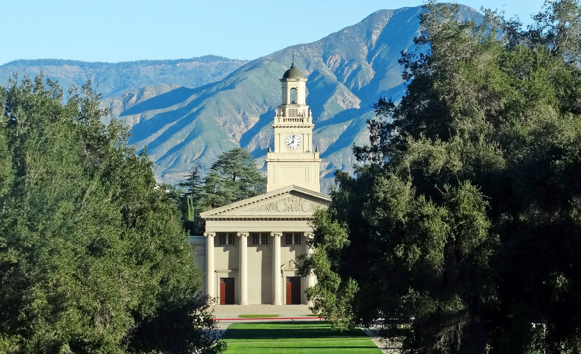 (1 in a multiple picture album) I take a lot of pictures of this chapel because . . . I like it.